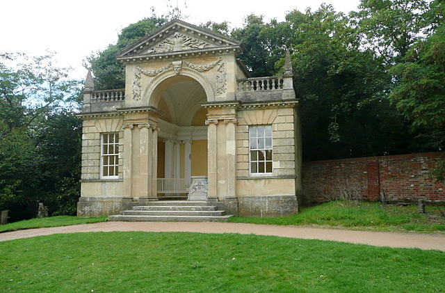 Cliveden, Blenheim Pavilion